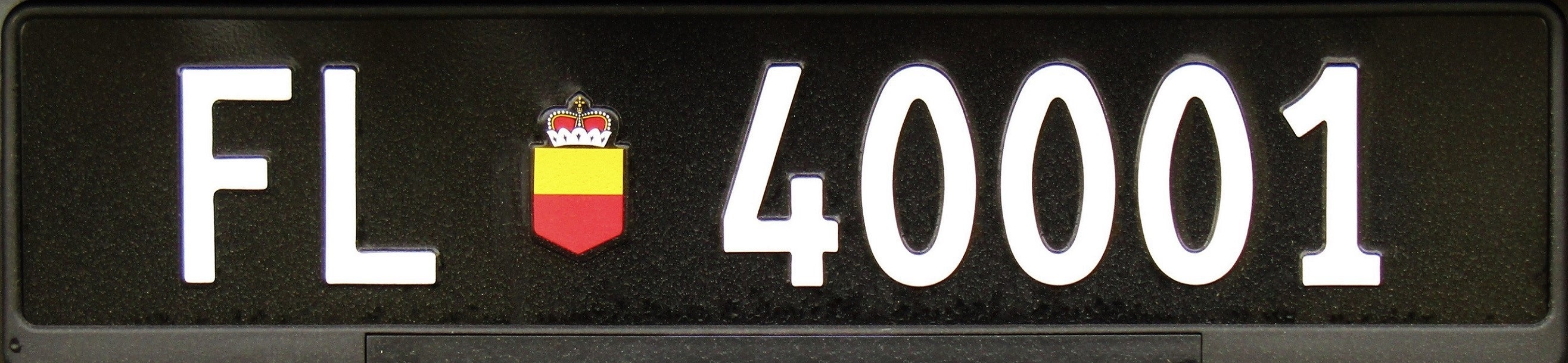 Liechtenstein standard license plate